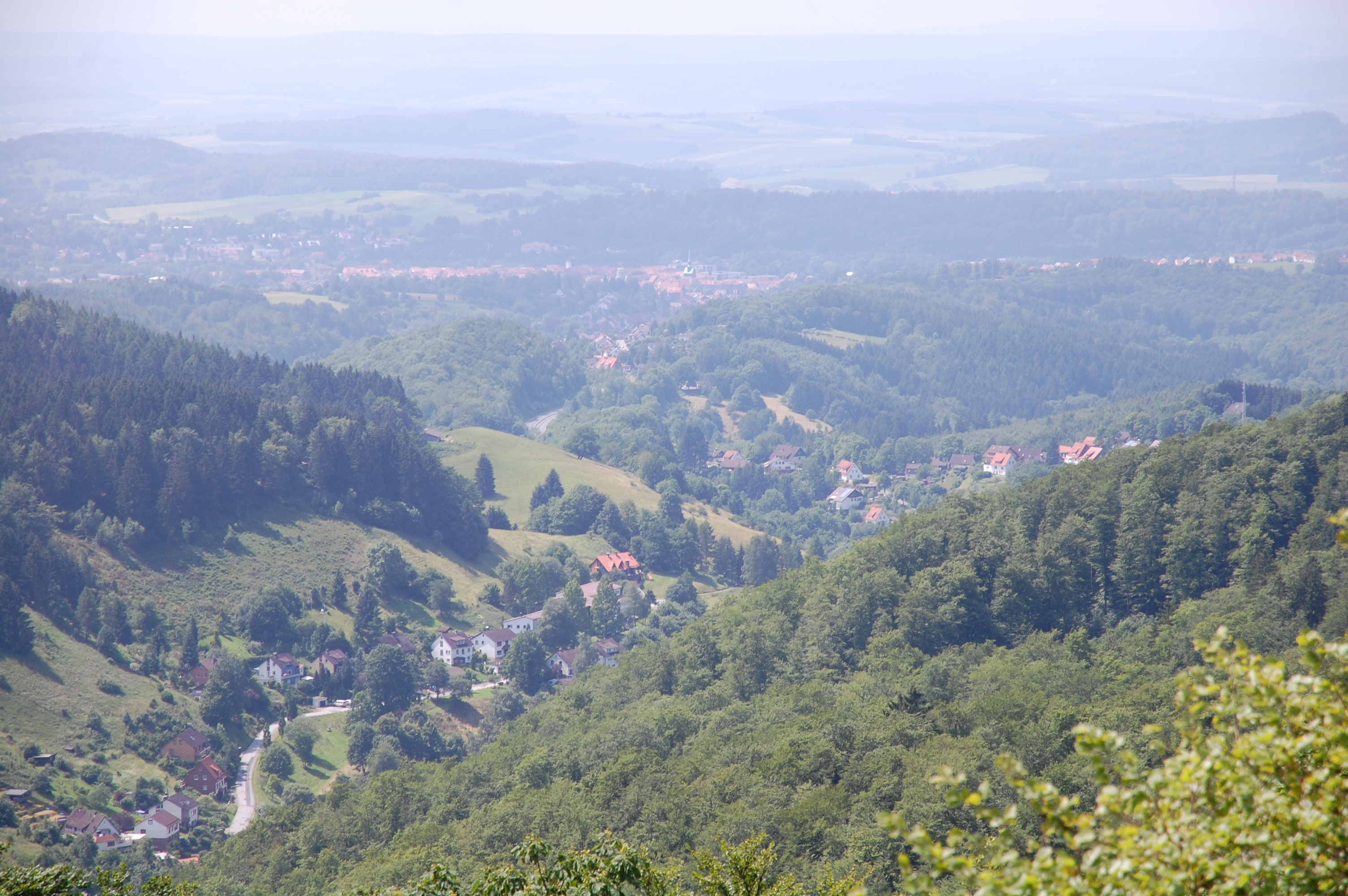 View from the look-out Kuckholzklippe near Lerbach in the direction Lerbach.